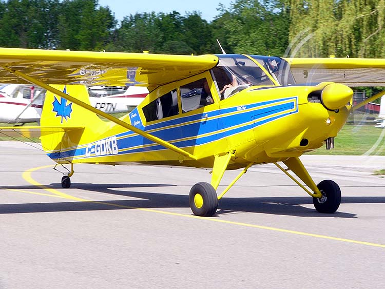 I took this photo of a modified and modernized Aeronca 15 AC Sedan (C-GDKB) at Rockcliffe Airport, Ottawa, Ontario, Canada on 27 May 2006